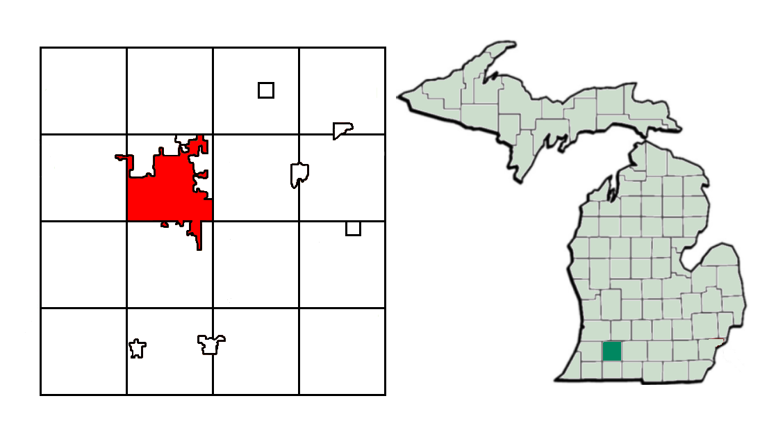 The location of Kalamazoo, Michigan.